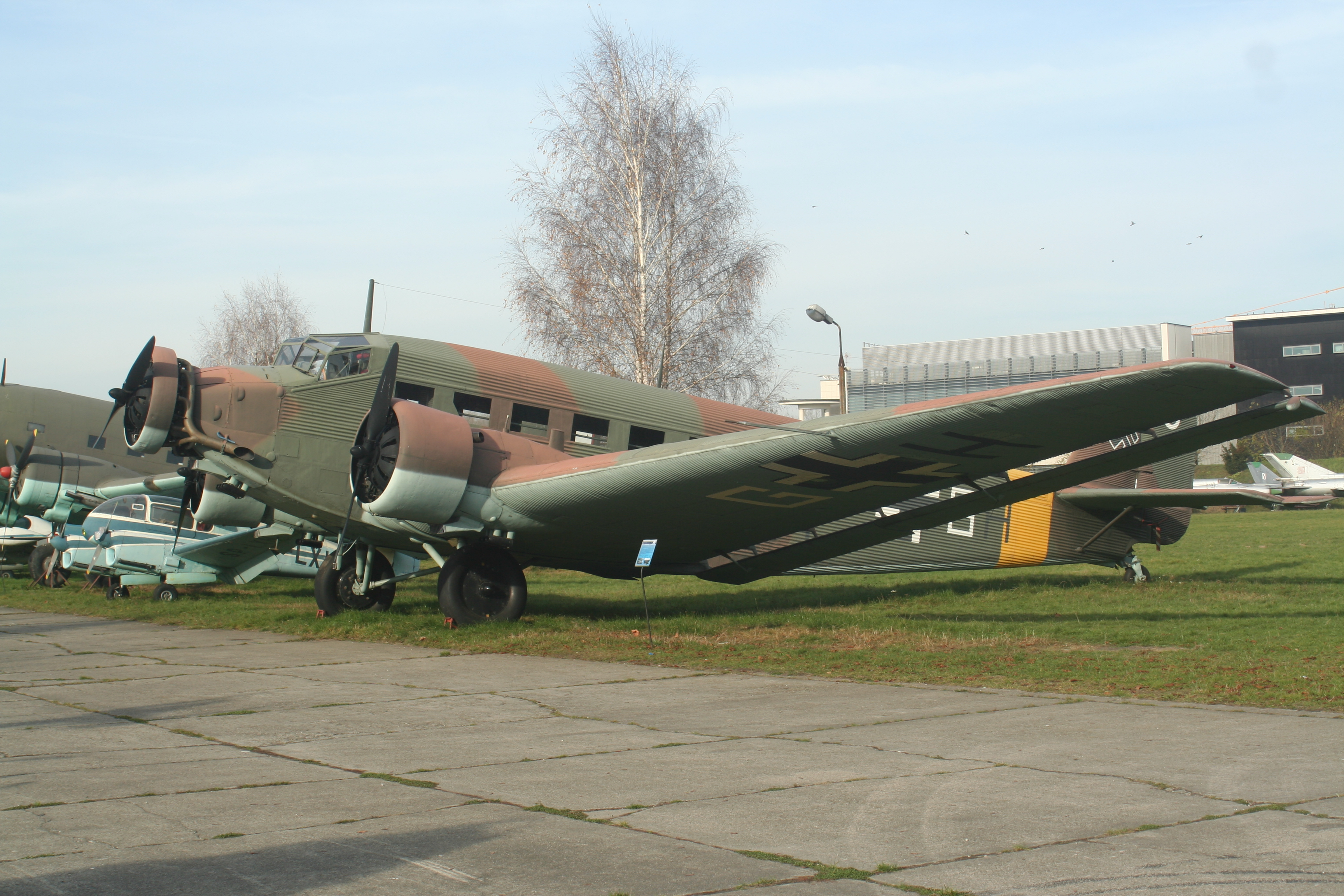 Amiot AAC.1 Toucan (Junkers Ju 52/3m g14e) at Polish Aviation Museum in Cracow